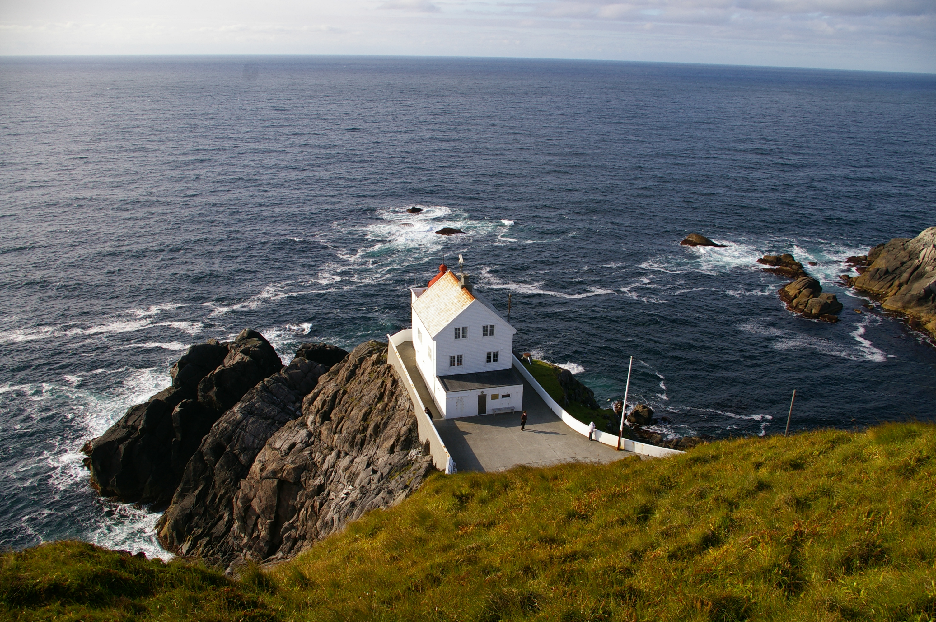 Kråkenes Lighthouse at Vågsøy, Sogn og Fjordane, Norway